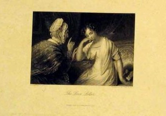 This is an engraving by Chas. Rolls of a painting by artist Henry James Richter. The painting is titled, "The Love Letter". There was a poem written about the painting that was authored by Letitia Elizabeth Landon. The painting depicts a scene from Sir Walter Scott's book, "The Antiquary". The painting is currently in a private collection.